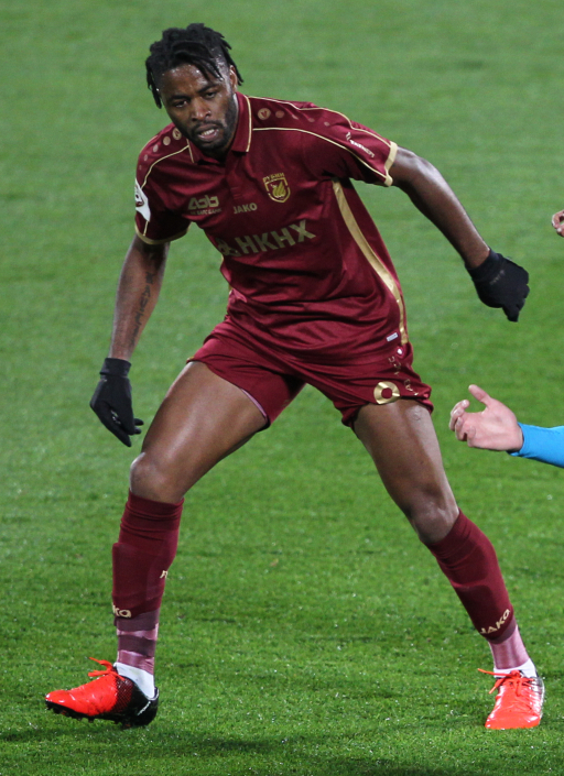 19.09.2016. Россия, Санкт-Петербург, «Петровский», Большая арена. РОСГОССТРАХ-Чемпионат России, 7-й тур, «Зенит» — «Рубин». На снимке в синей форме: .